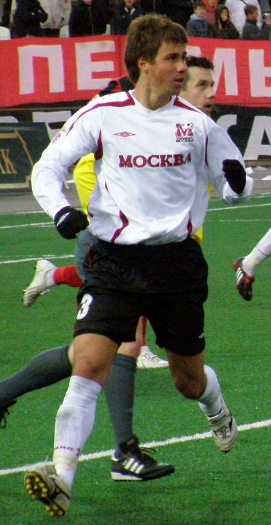 Alexandr Sheshukov in action for FC Moscow